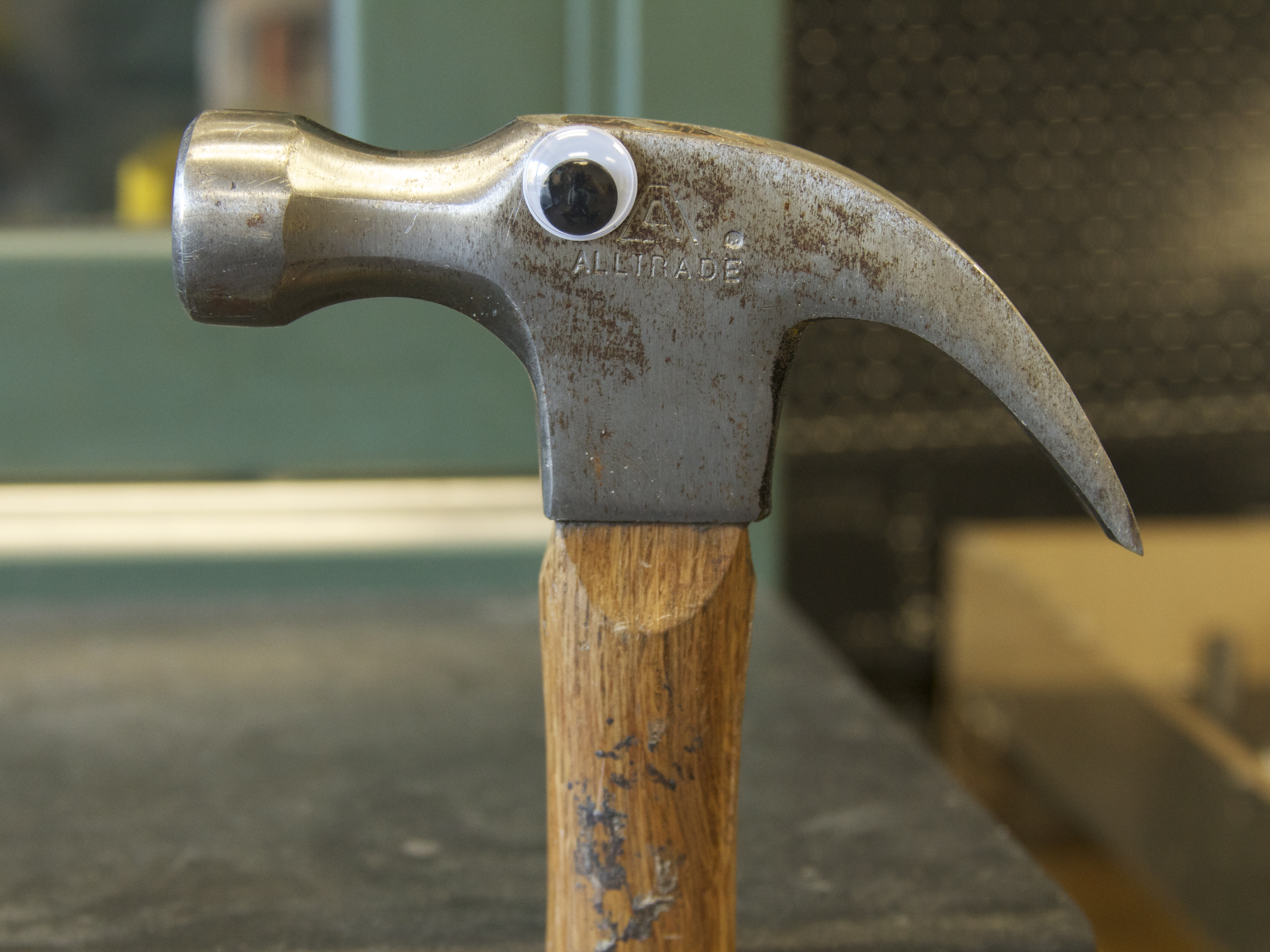 A googly eye stuck to a hammer.